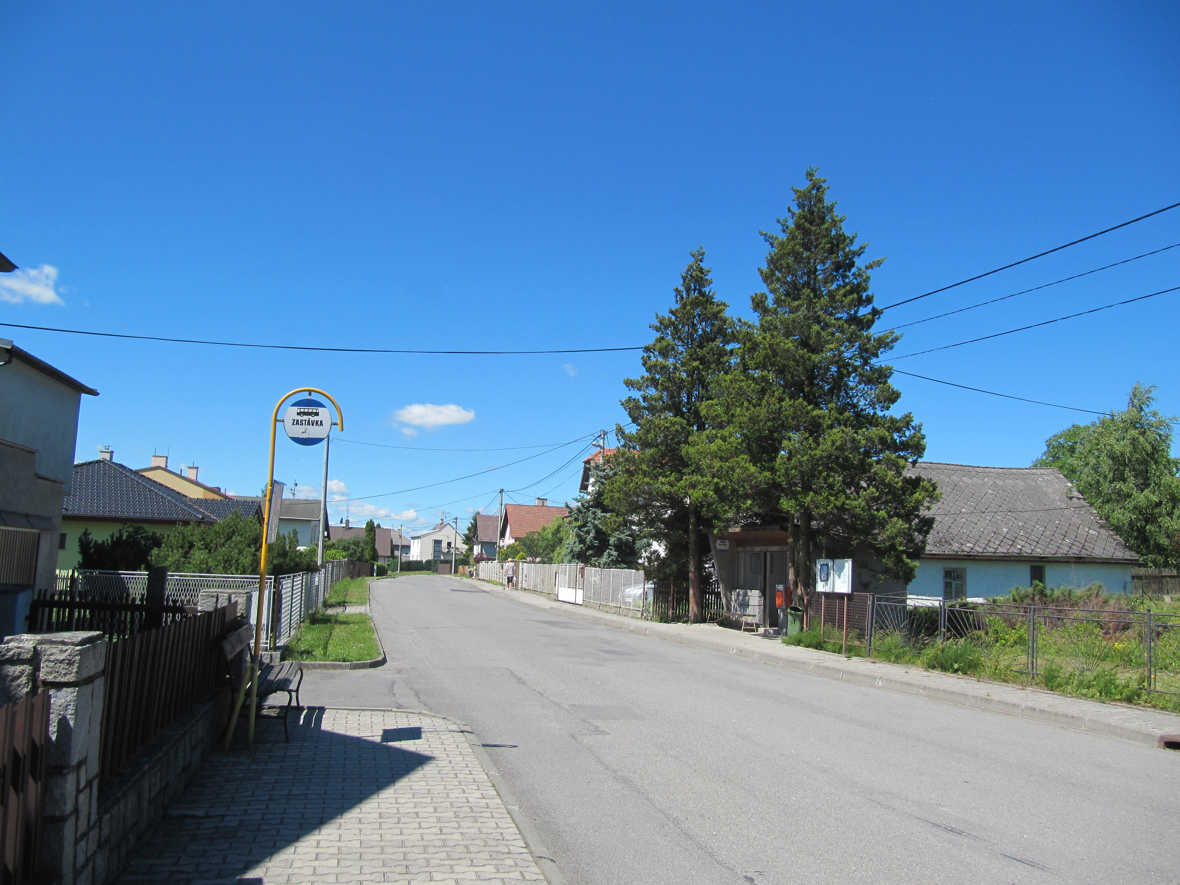 Slatina, Nový Jičín District, Czech Republic, part Nový Svět.